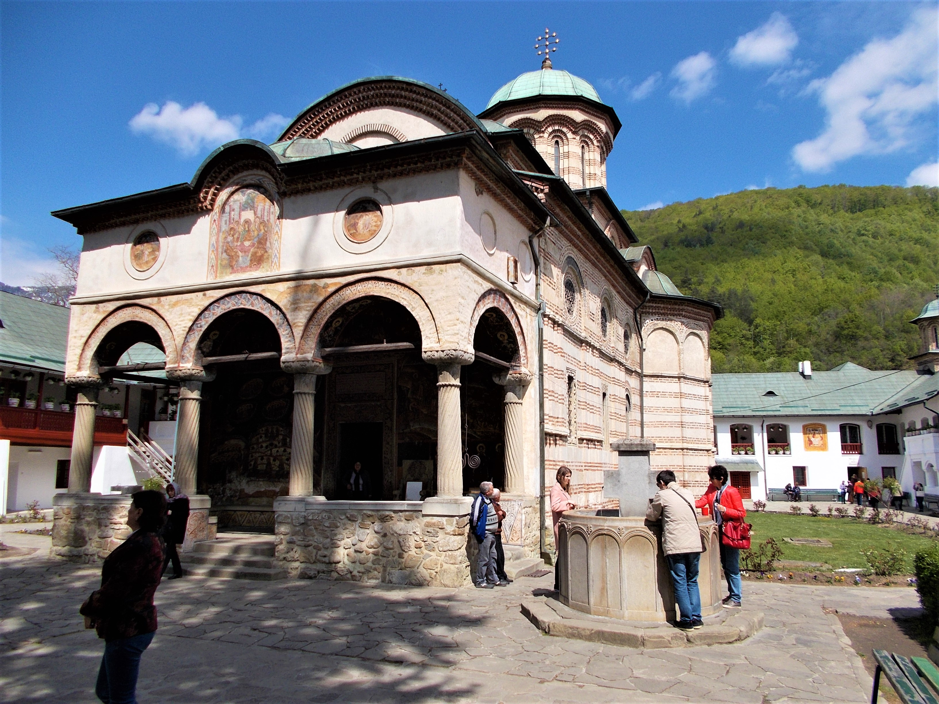 Cozia Monastery, Vâlcea County, Romania (Trinity Church) 01